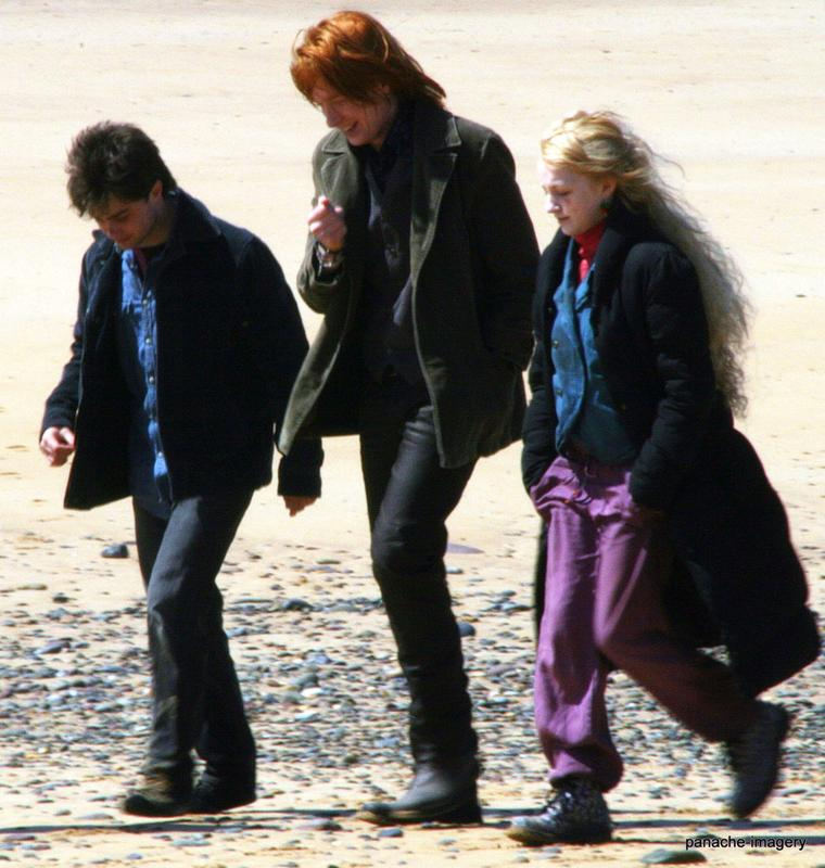 Daniel Radcliffe, Domhnall Gleeson and Evanna Lynch filming for Harry Potter and the Deathly Hallows at Freshwater West, Pembrokeshire in May 2009.